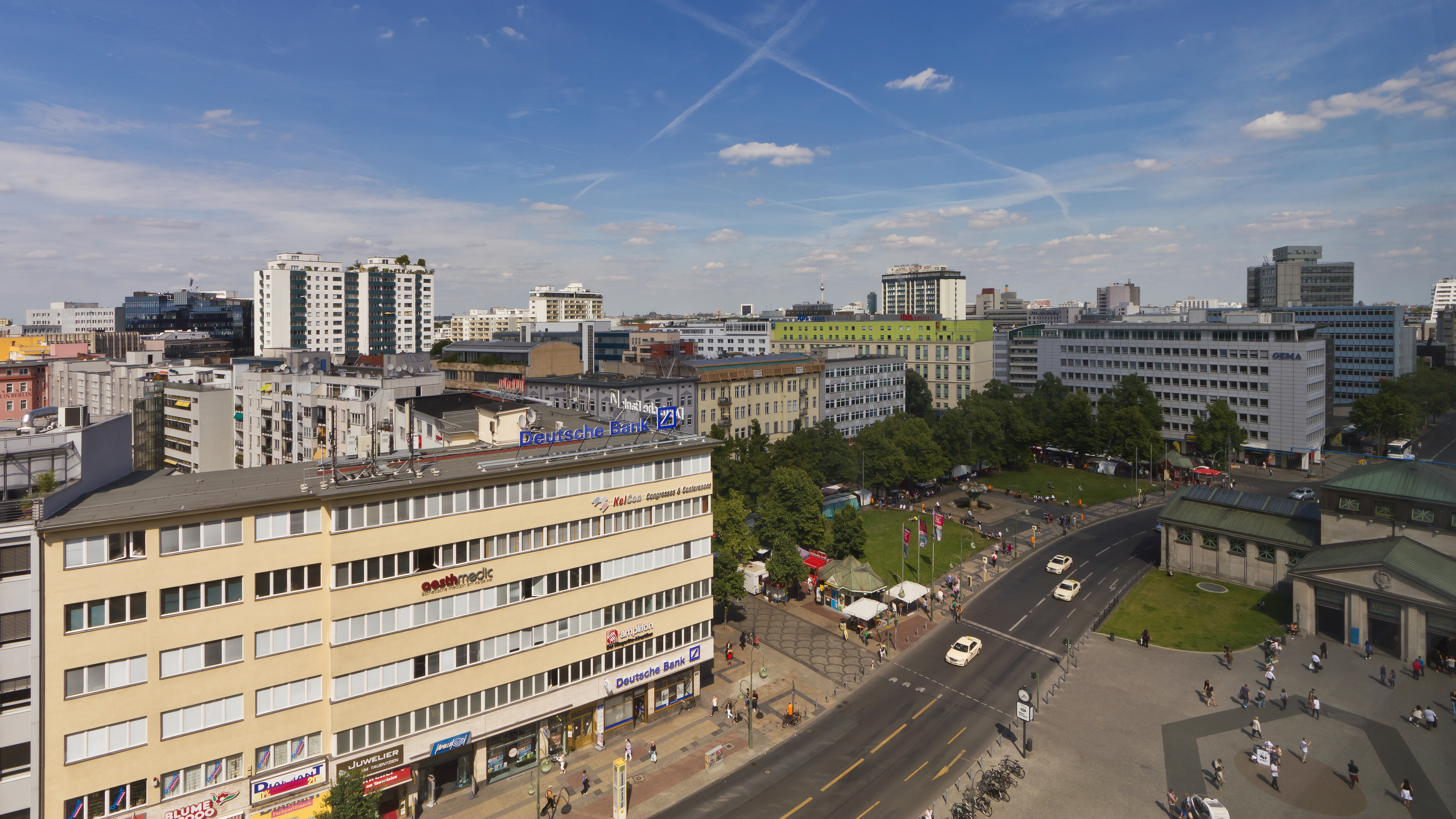 View towards Wittenbergplatz in Berlin, Germany